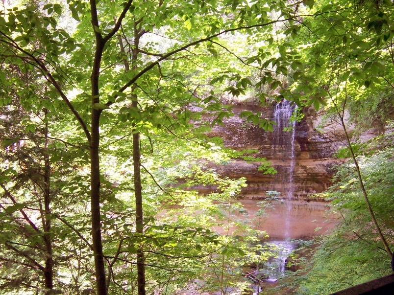 Munising Falls in the Pictured Rocks National Lakeshore.